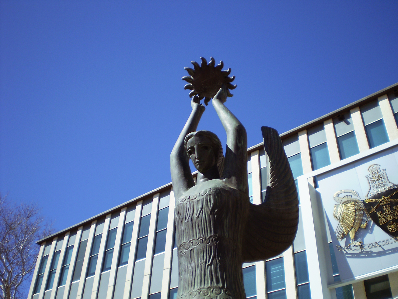 Close view of Ethos, the statue by Tom Bass at Civic Square, Canberra.